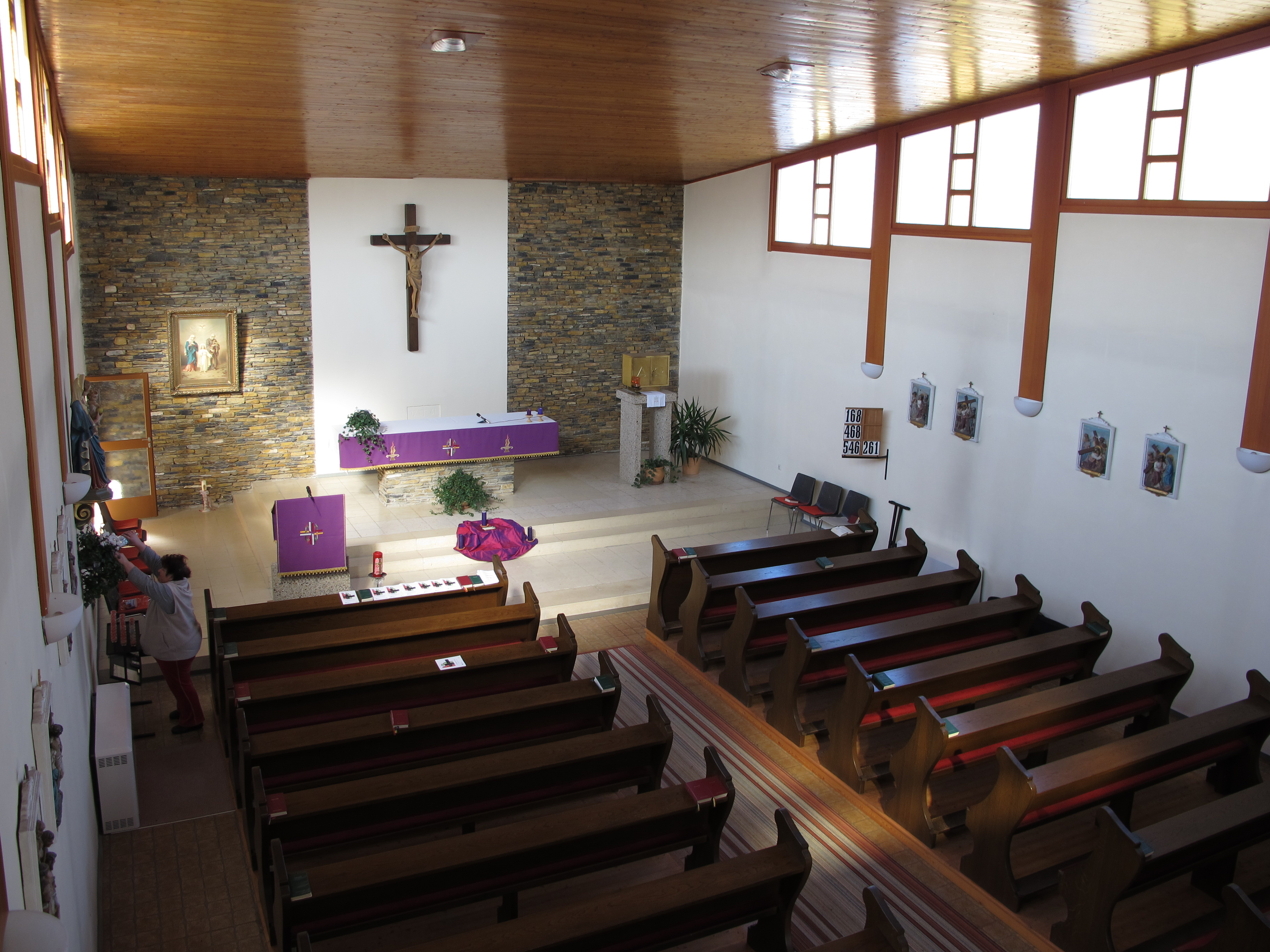 Kirche Inzenhof